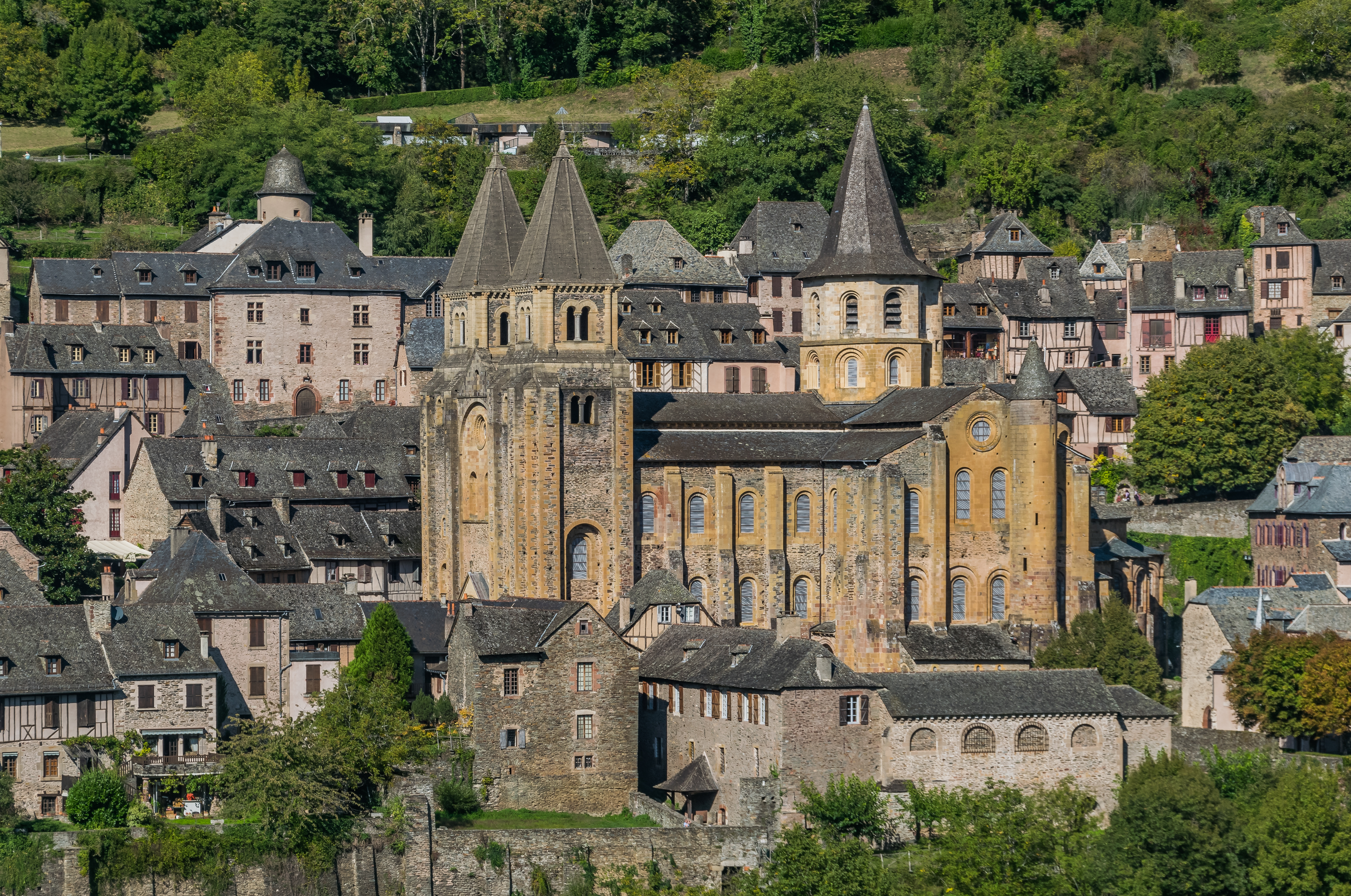 View of Saint Faith Abbey Church of Conques, Aveyron, France This place is a UNESCO World Heritage Site, listed as Chemins de Saint-Jacques-de-Compostelle en France.